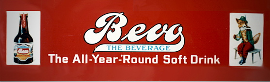 Sign for Bevo Made sometime 1916 - 1929.